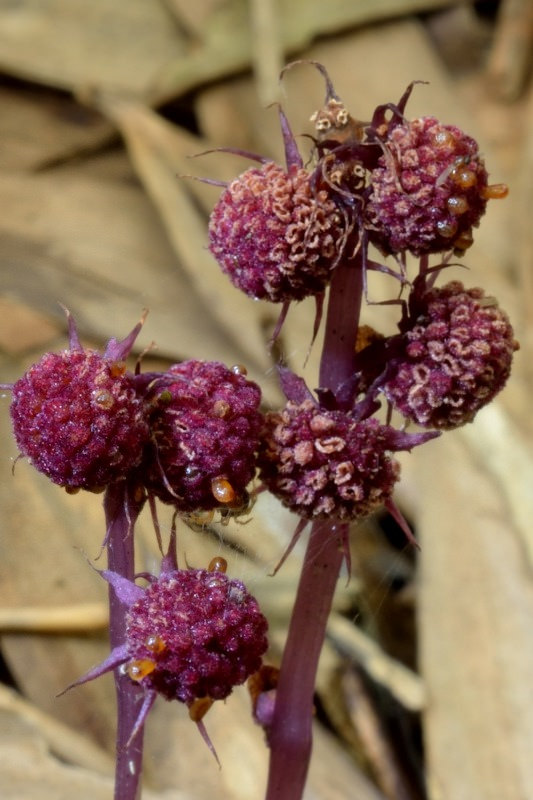 Sciaphila secundiflora Thwaites ex Benth. 錫蘭霉草